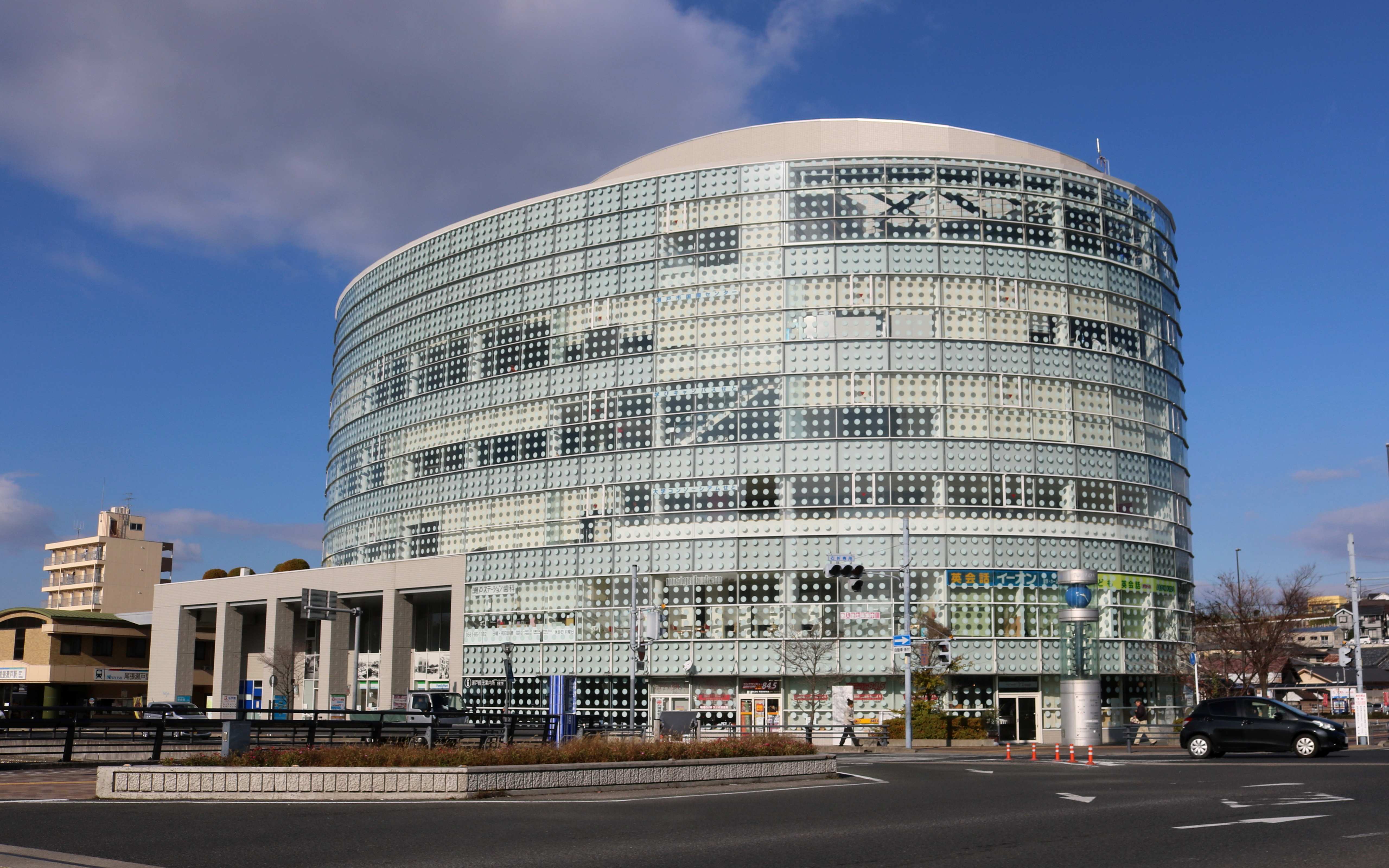 Parti Seto and Owari Seto Station in Seto, Aichi Preecture, Japan.